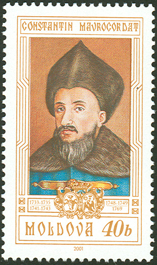 Stamp of Moldova